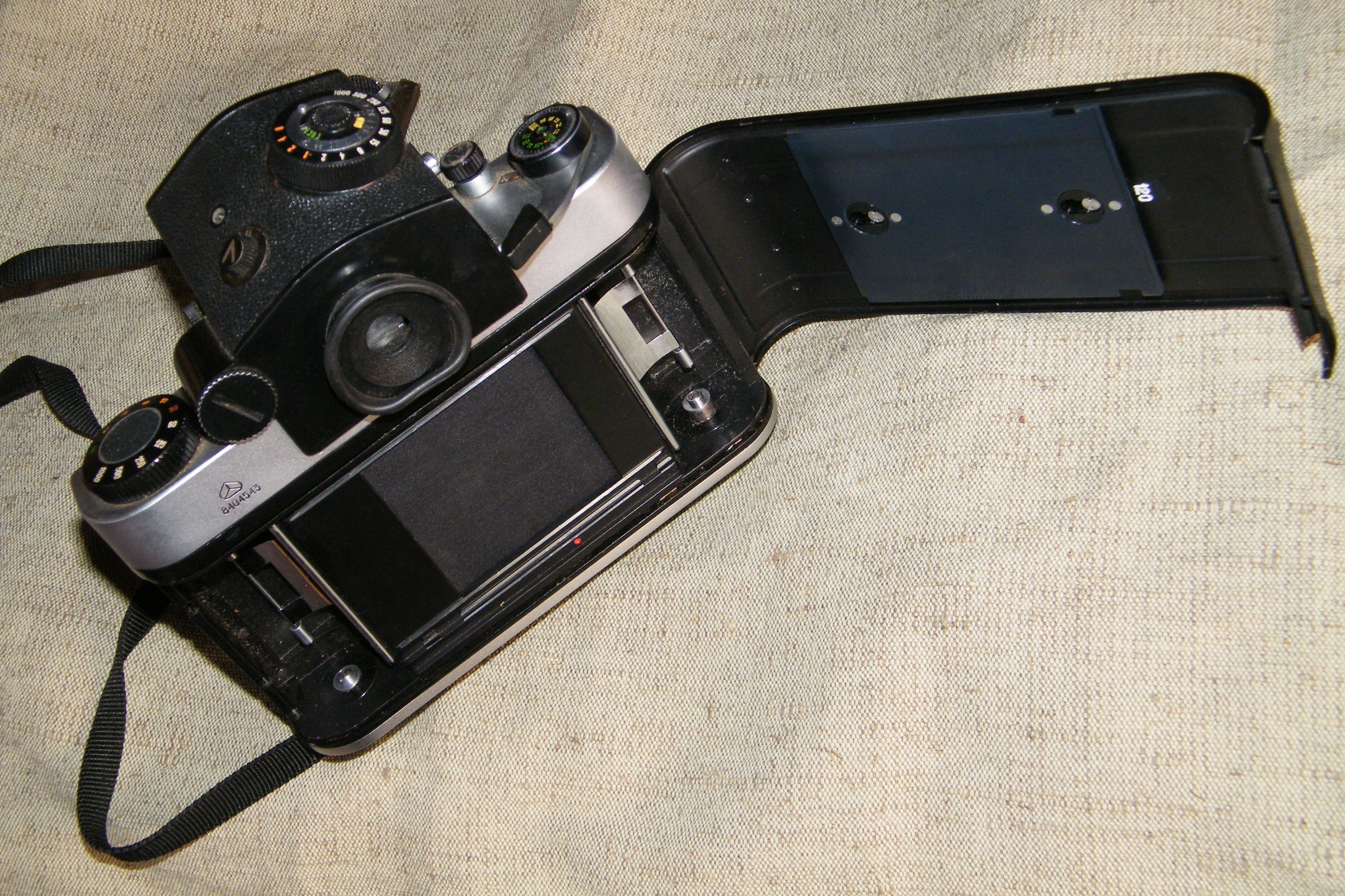 Kiev 6C